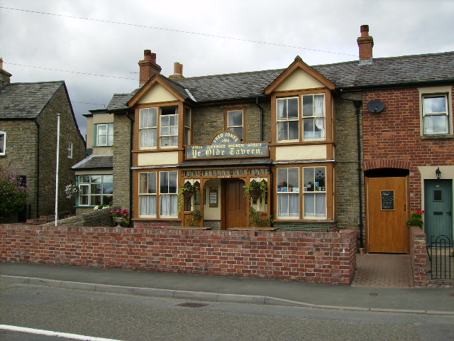 Ye Olde Tavern on the outskirts of Kington. A very traditional looking public house in Kington.